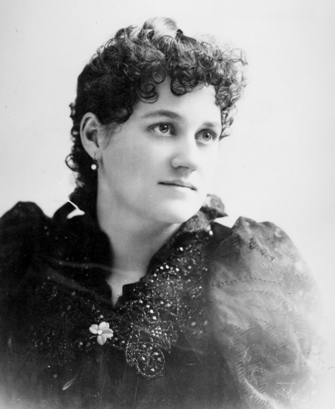 Capt. Minnie Hill, first woman licensed to operate a steamboat west of the Mississippi river.